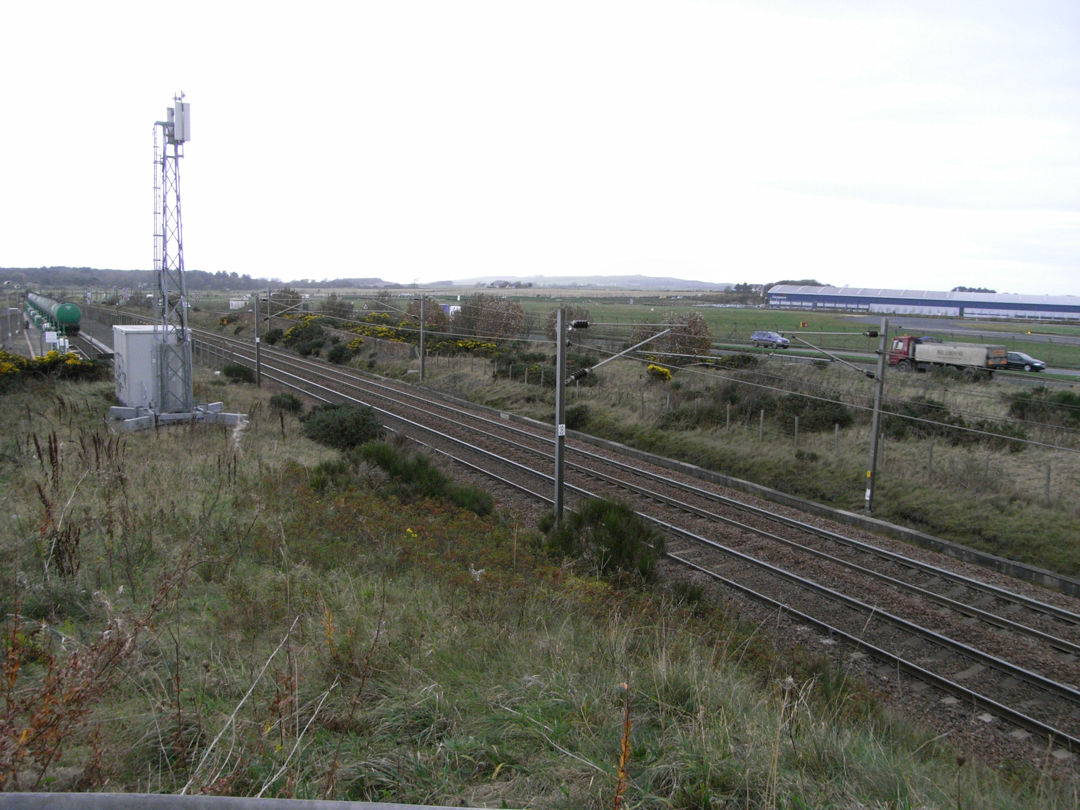 The site of Monkton railway station, South Ayrshire.